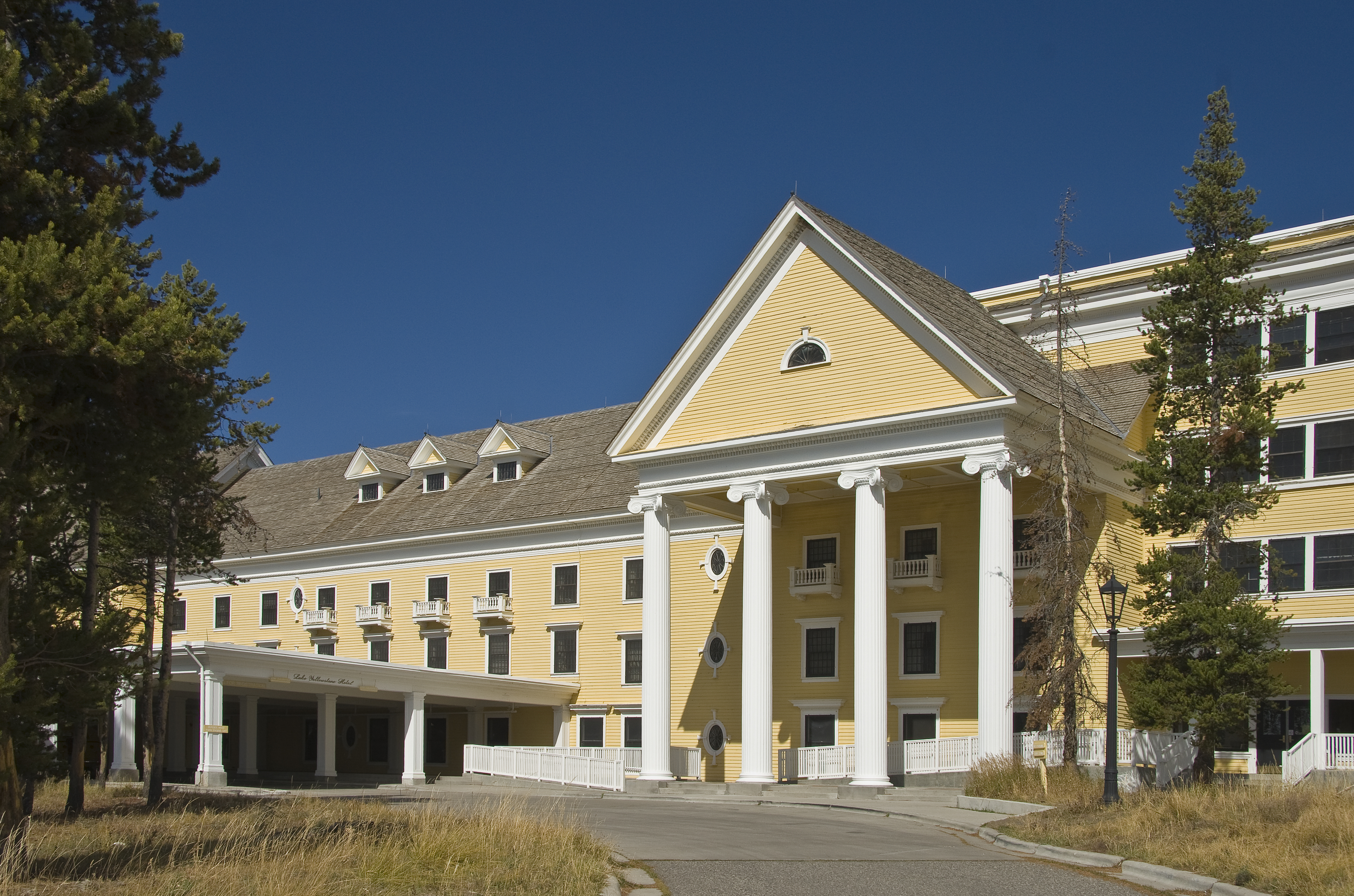 Lake Yellowstone Hotel, Yellowstone National Park, Wyoming, USA